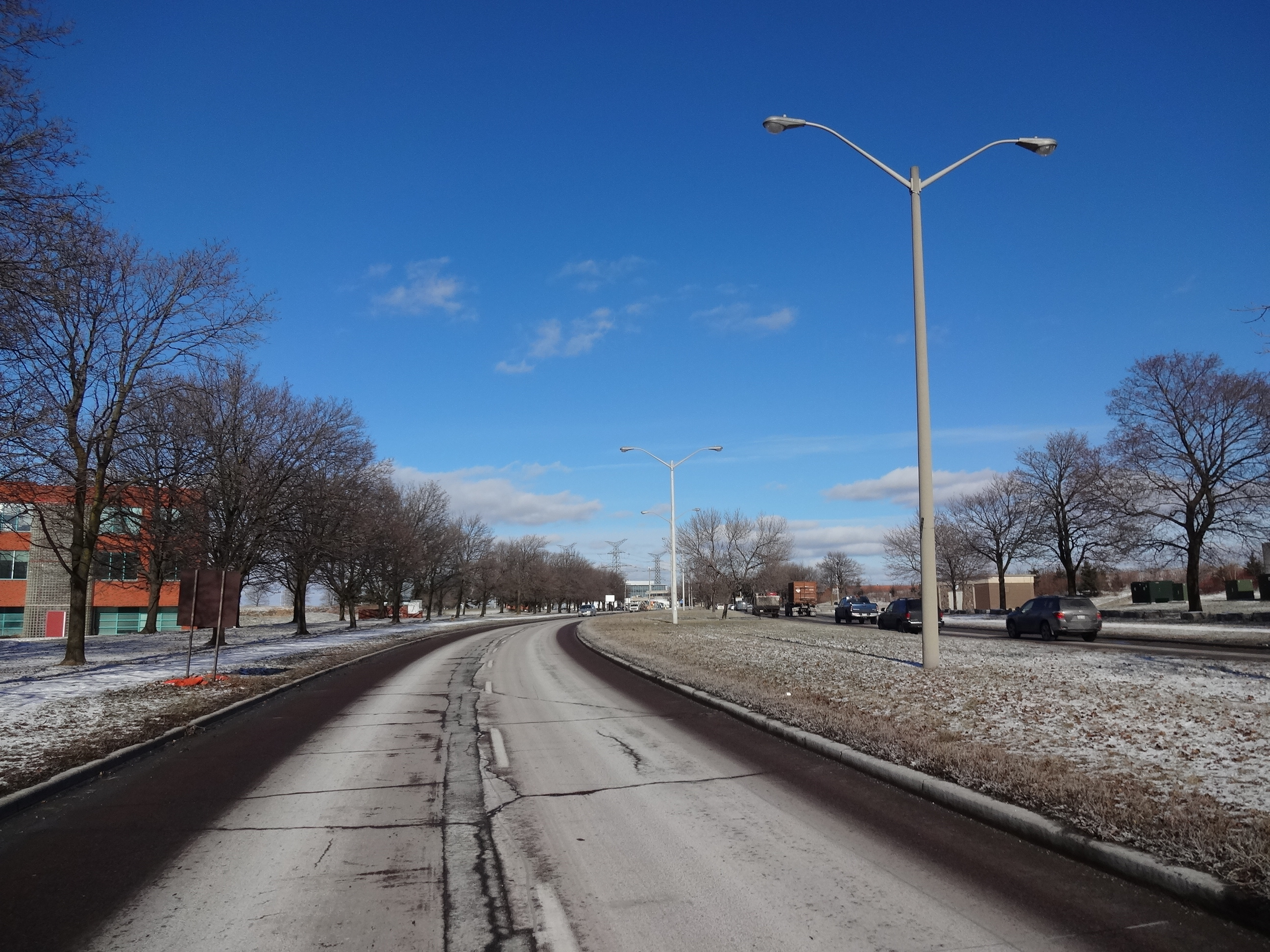 Keele Street, in Toronto.